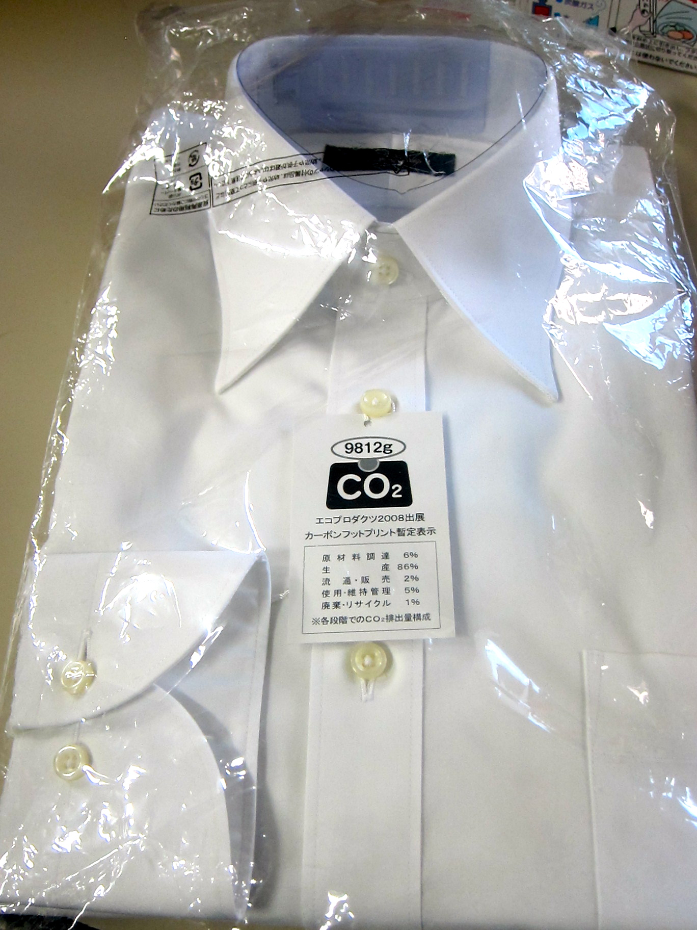 Examples of carbon footprinting on consumer products, Japan's Ecoleaf program.